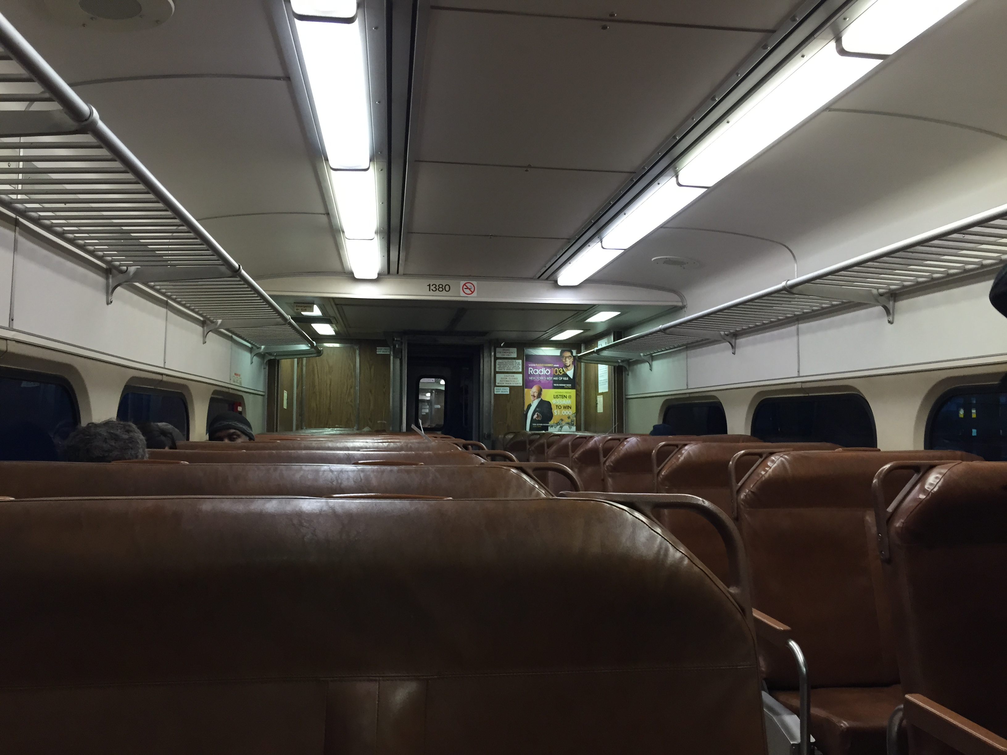 Interior of an NJ Transit rail car on the Northeast Corridor